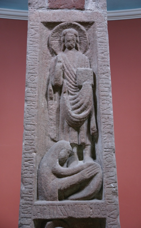 Ruthwell Cross, Ruthwell and Mount Kedar Church, Ruthwell, Dumfries and Galloway, Scotland. South side - detail: washing the Saviour's feet.